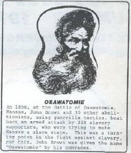 Article of Osawatomie (issue n°2), the clandestine newspaper of the Weather Underground, describing the reasons behind the name and the life of John Brown.